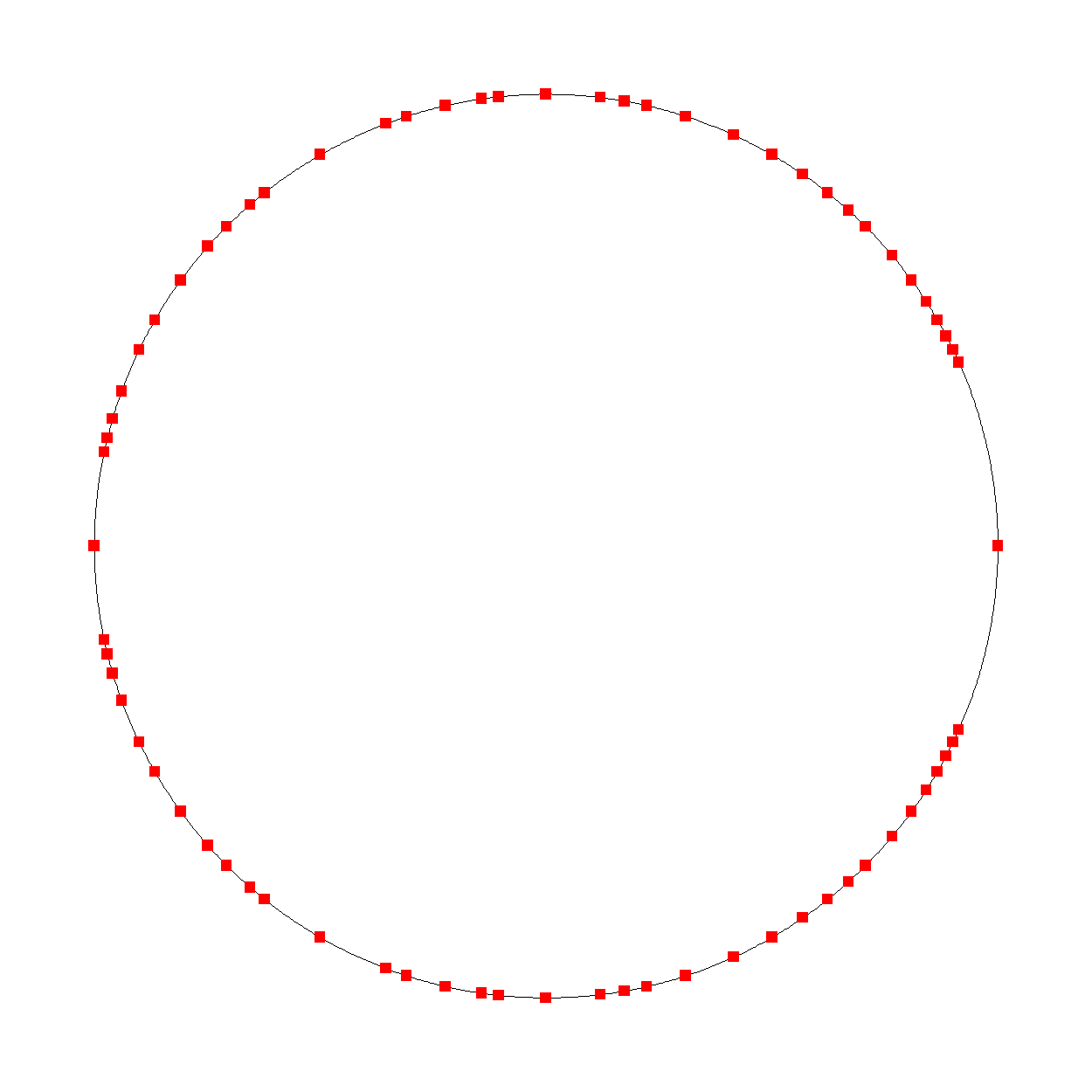 Fractions in the range [0, 1] the sum of the numerator and denominator of not more than 15. Made in the software package Mathematica.